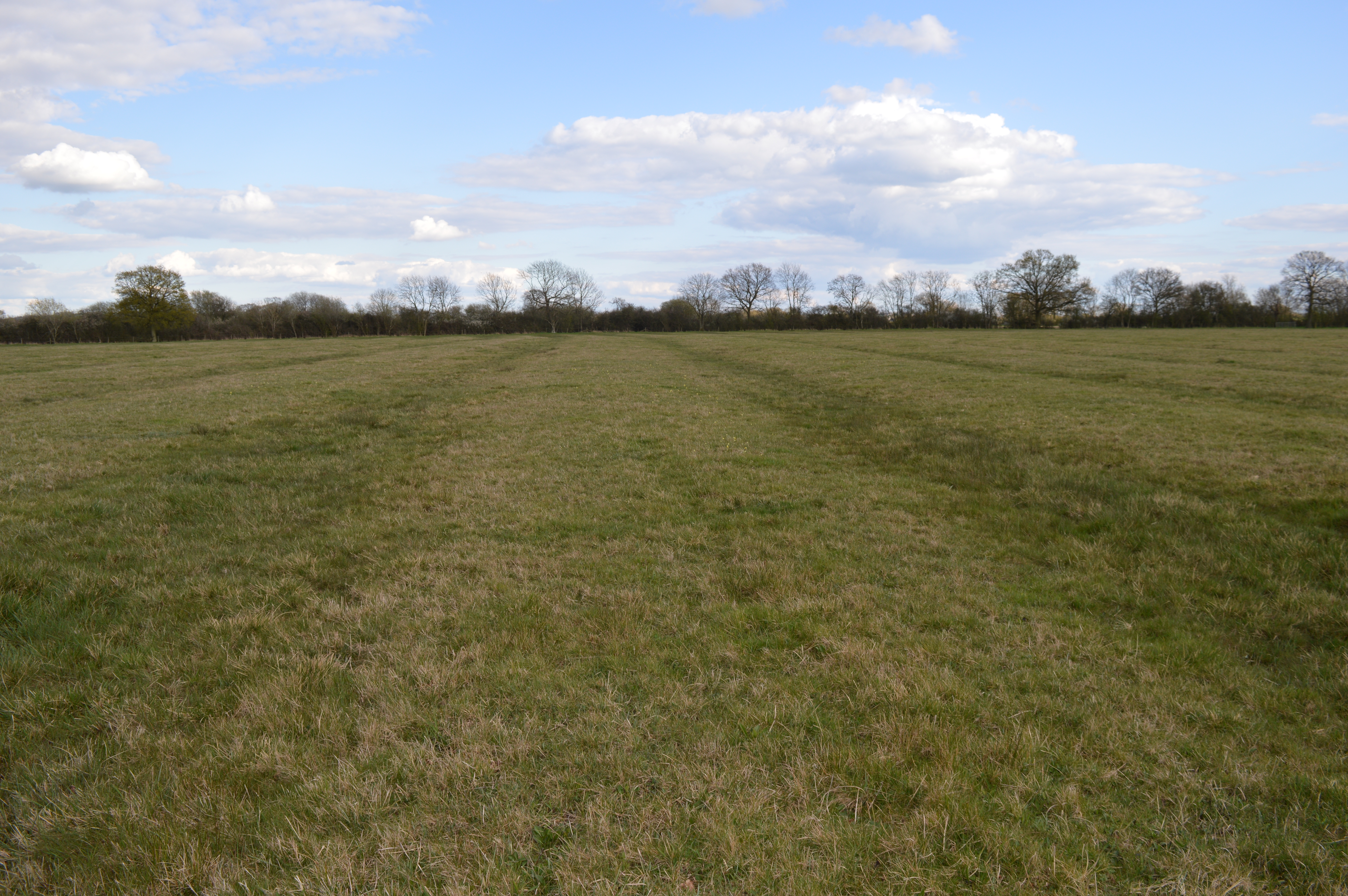 Wendlebury Meads, a biological Site of Special Scientific Interest between Charlton on Otmoor and Wendlebury in Oxfordshire